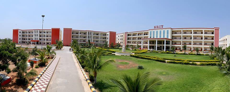 SRIT complete building